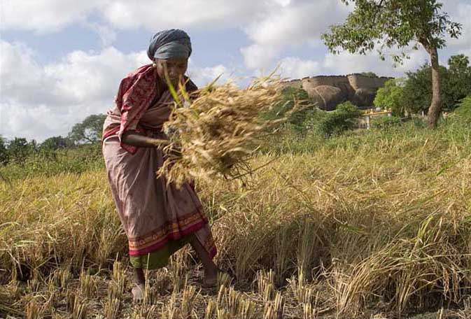 A woman manually harvesting crops in Thirumayam, India.